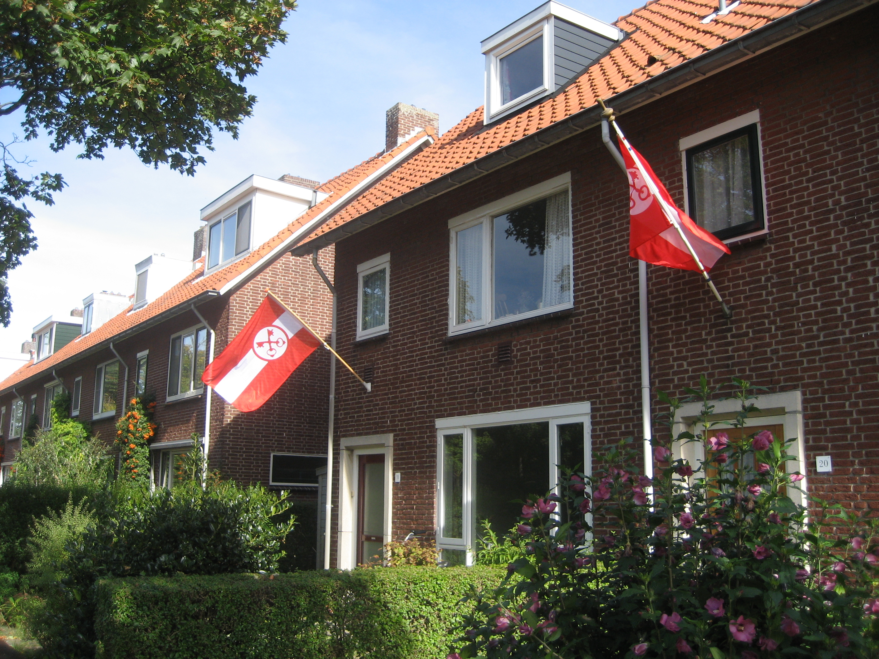 Flags in Boshuizerlaan, Leiden (The Netherlands) during the 3 October Festival